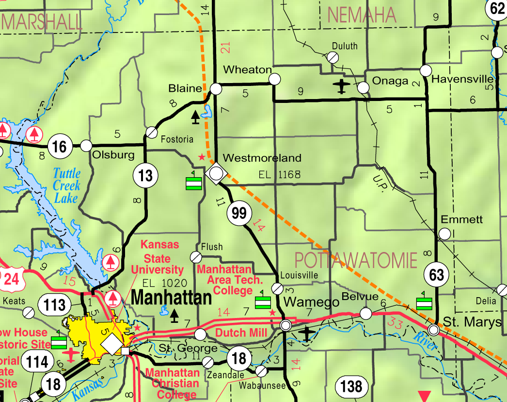 This map of Pottawatomie County, Kansas, USA, is copied at a resolution of 300 pixels/inch from the original PDF file.